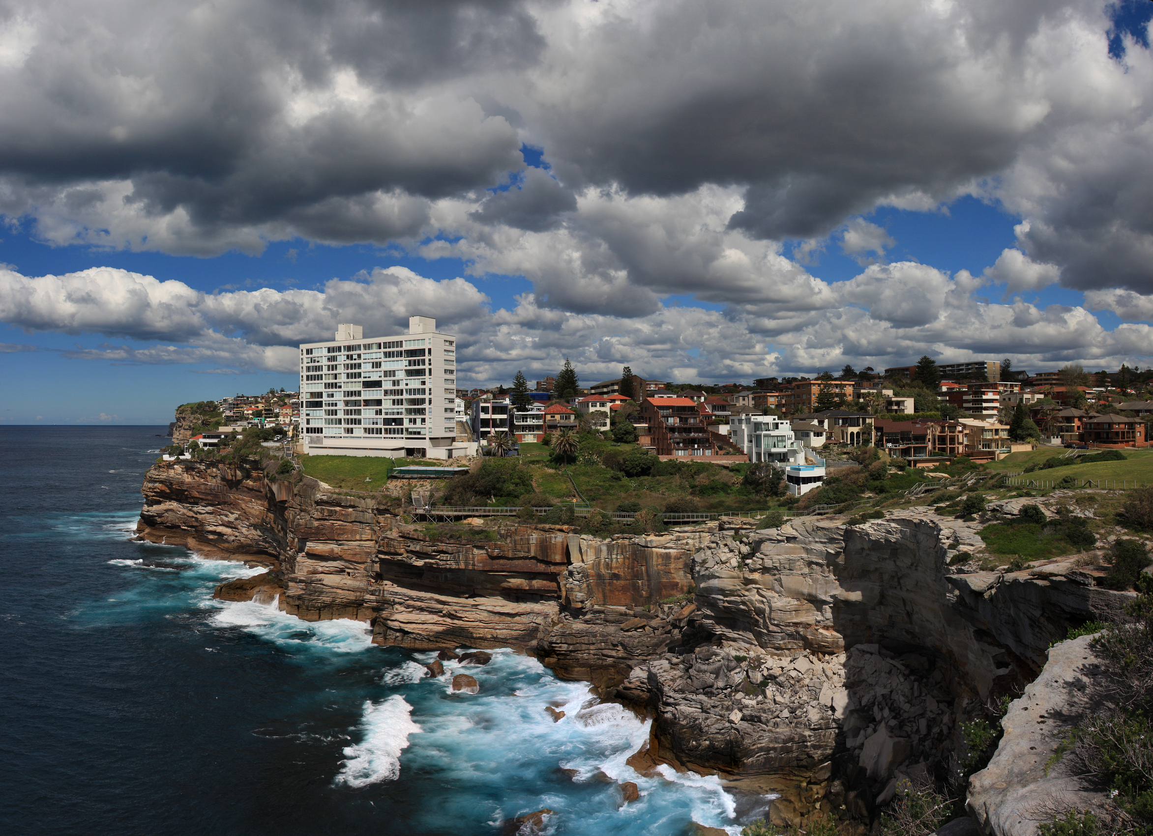 Dover Heights from Watsons Bay